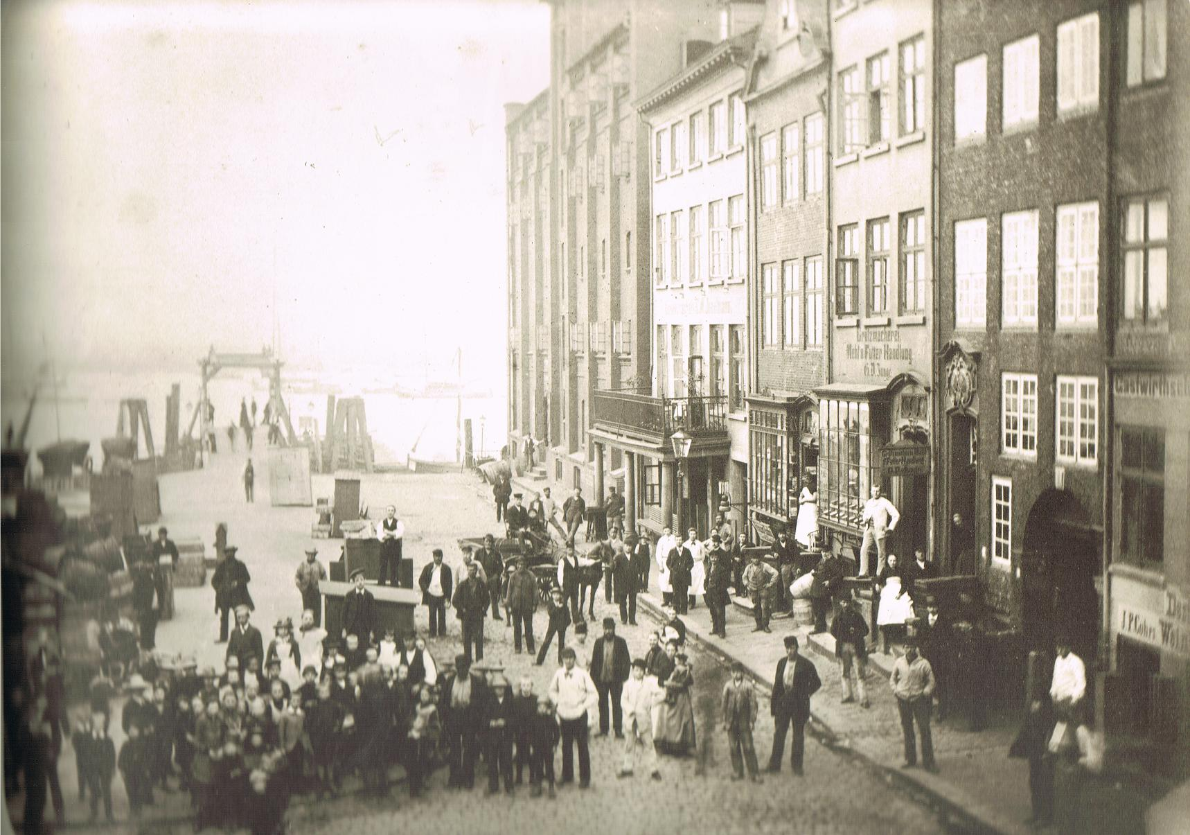 At the fish market in Altona, then a Danish town, today part of Hamburg, Germany; photograph by G. Weber, 1858